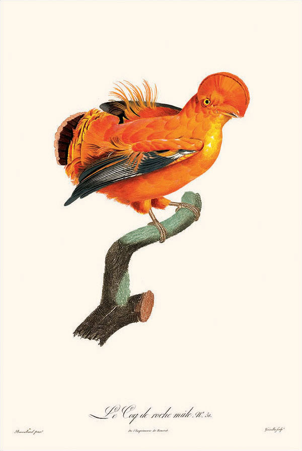 Le Coq de roche, mâle, plate no. 51, from "Histoire naturelle des Oiseaux de Paradis et des Rolliers", published by Jacques Barraband and François Levaillant (original illustration in watercolor)